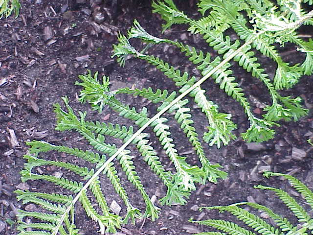 Species: Dryopteris affinis f. cristata Family: Aspidiaceae Image No. 3